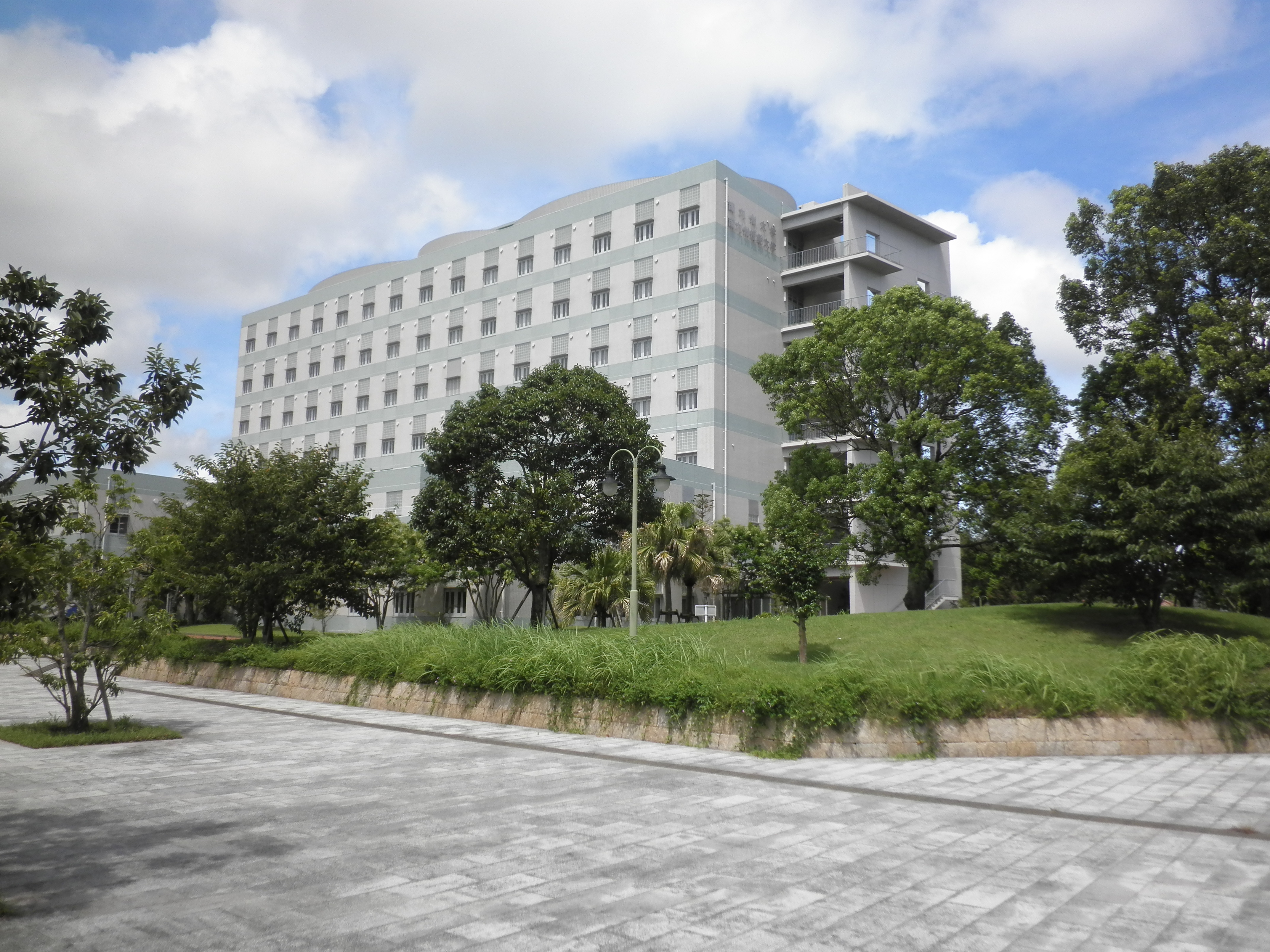 Minami Kyushu University Miyazaki Campus